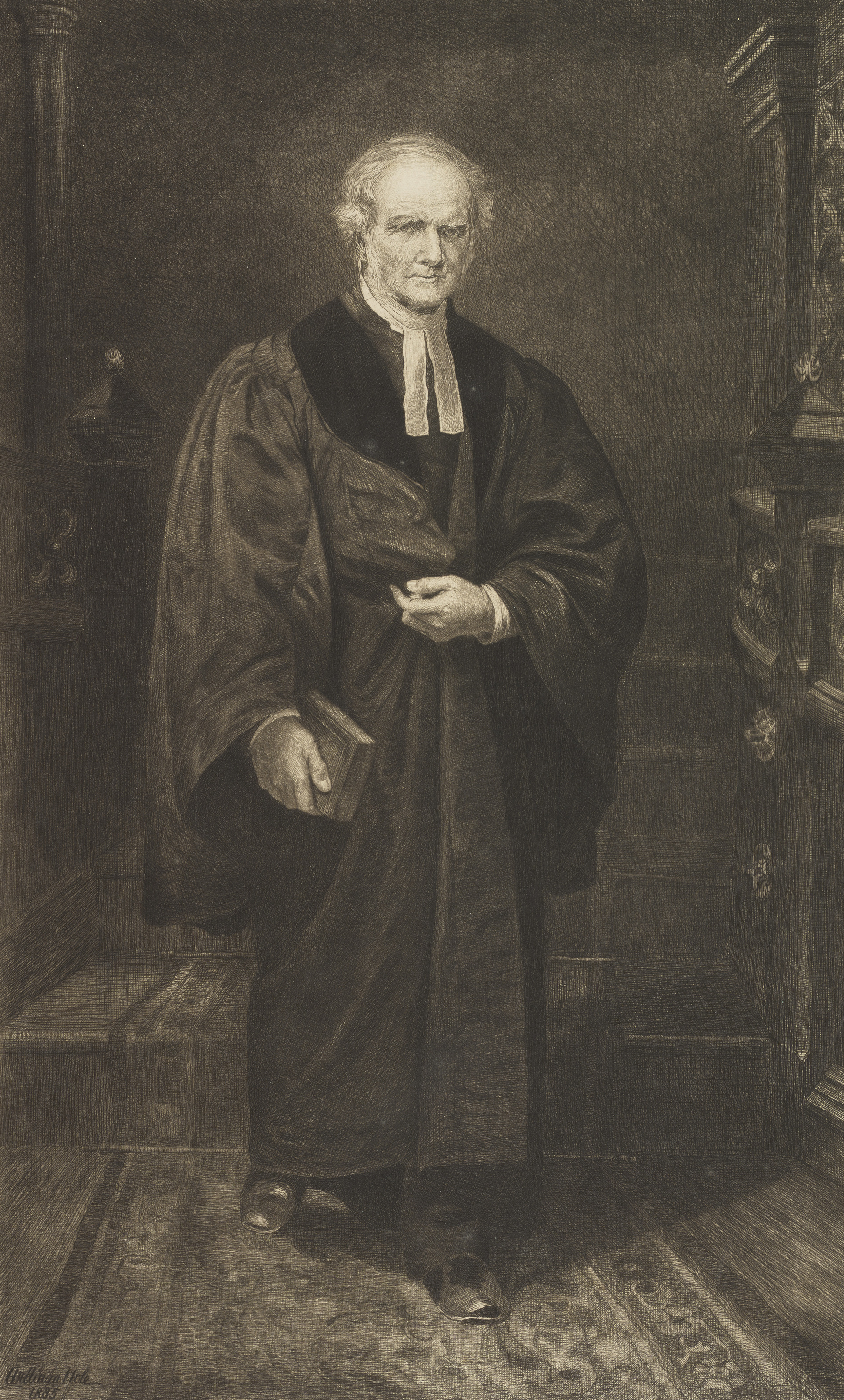 National Galleries Scotland Unknown; after William Brassey Hole Rev. Alexander Moody Stuart, 1809 - 1898. Free Church minister